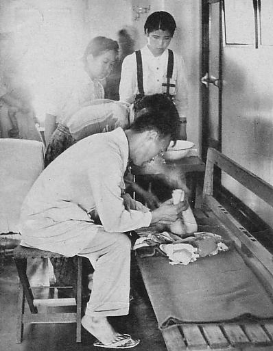 Doctor of the Assistance Association for Overseas Compatriot